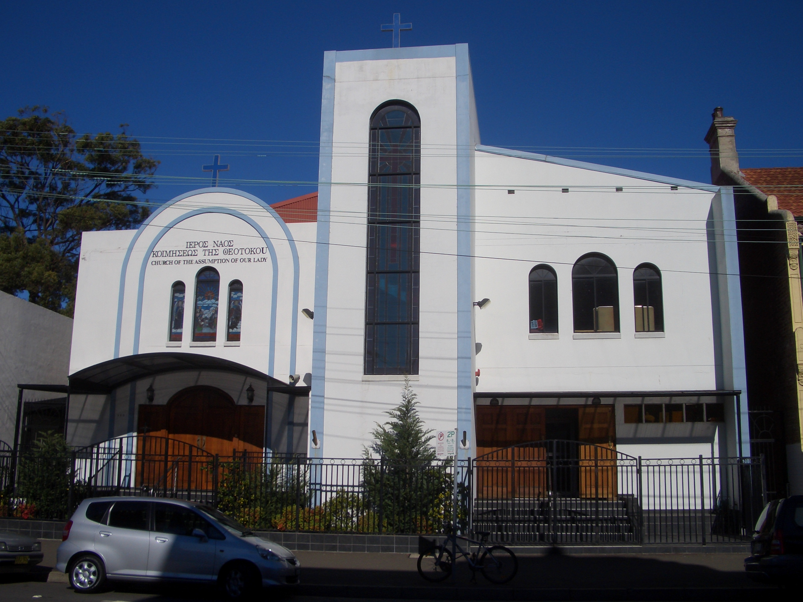 The Assumption of Our Lady, Greek Orthodox Church, Abercrombie Street, Darlington